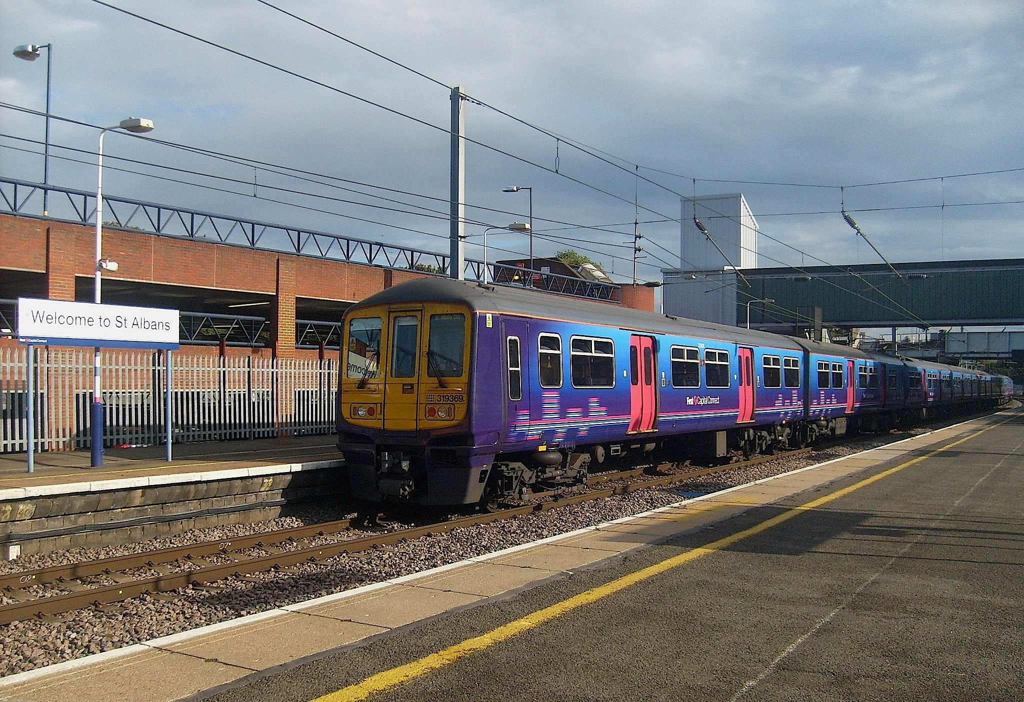 A pair of First Capital Connect refreshed Class 319/3 EMUs No. 319369 and 319368 at St. Albans